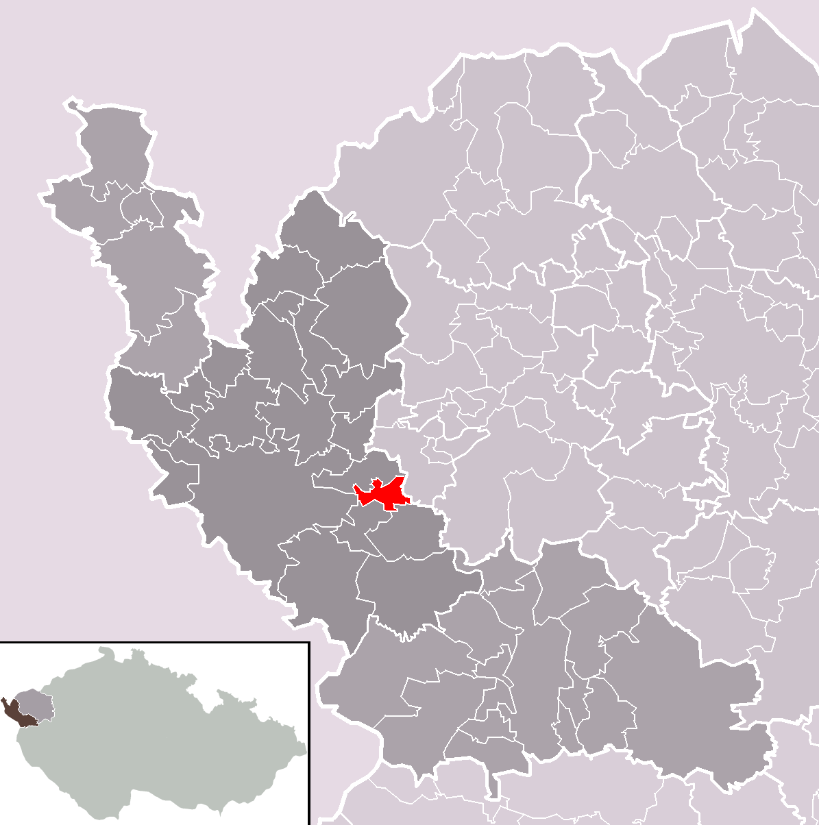 Location of Tuřany municipality within Cheb District and administrative area of Cheb as a Municipality with Extended Competence.